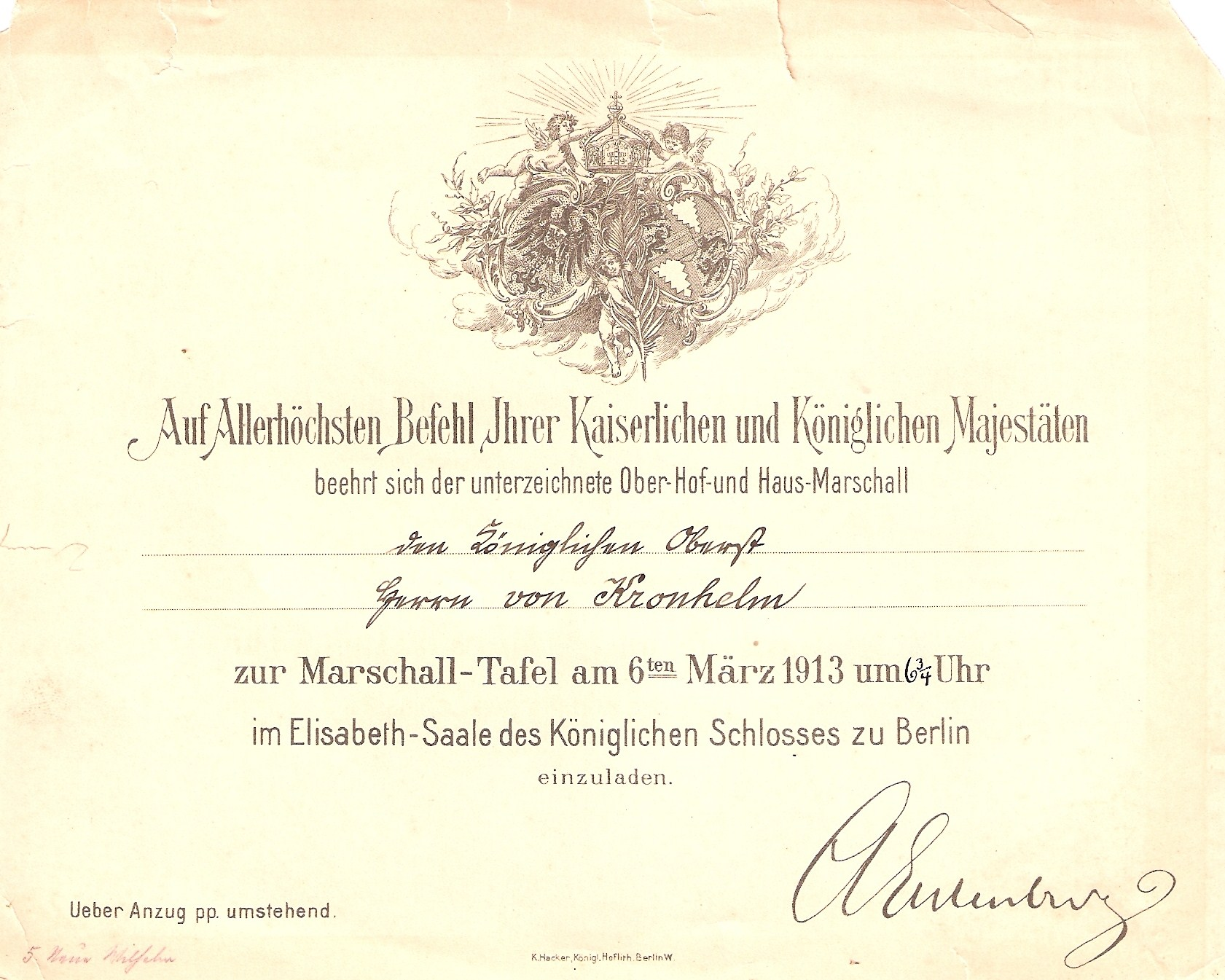 Invitation to Curt von Kronhelm, prussian colonel (Oberst), in 1913